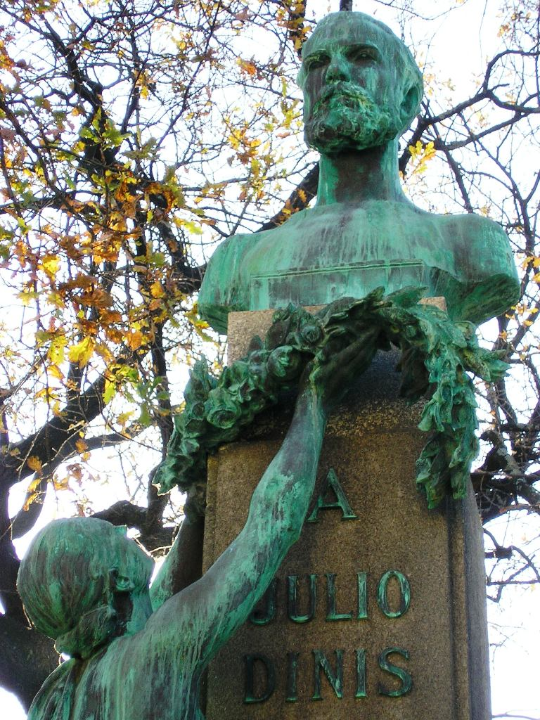 Statue of the Portuguese writer Júlio Dinis in Porto, Portugal.